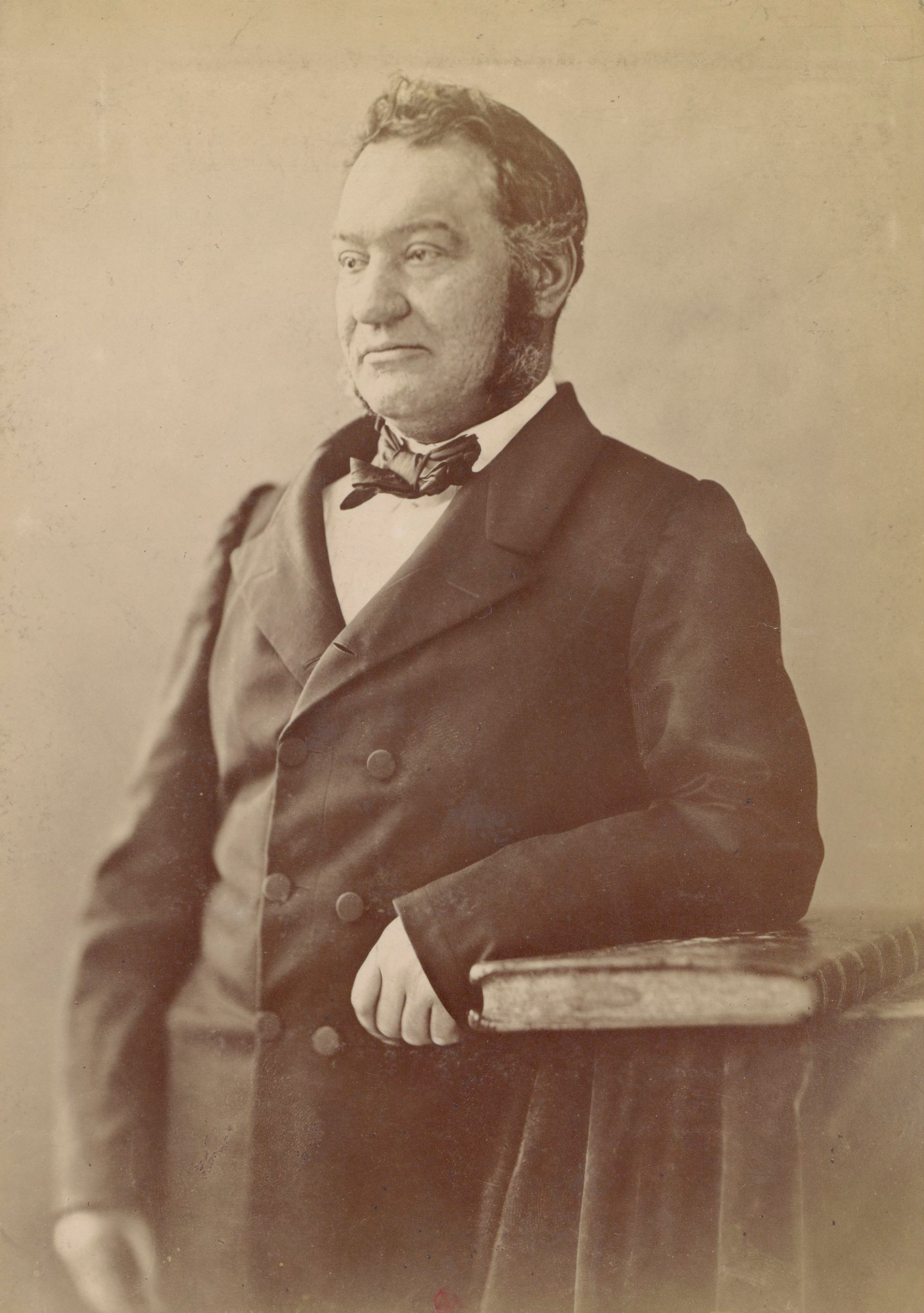 Louis Veuillot, Catholic journalist and man of letters from France.